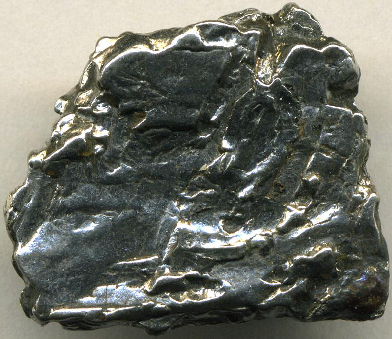 Nantan Meteorite (2.0 cm across) - this octahedrite is a sample of the Nantan Meteorite from northern Guangxi Province, southern China. It's a group IIICD iron with ~92% Fe, ~7% Ni, and trace amounts of other minerals. The Nantan fireball was witnessed and documented by the Chinese in May or June of 1516 A.D., but samples were first recovered & recognized much later in the mid-20th century.